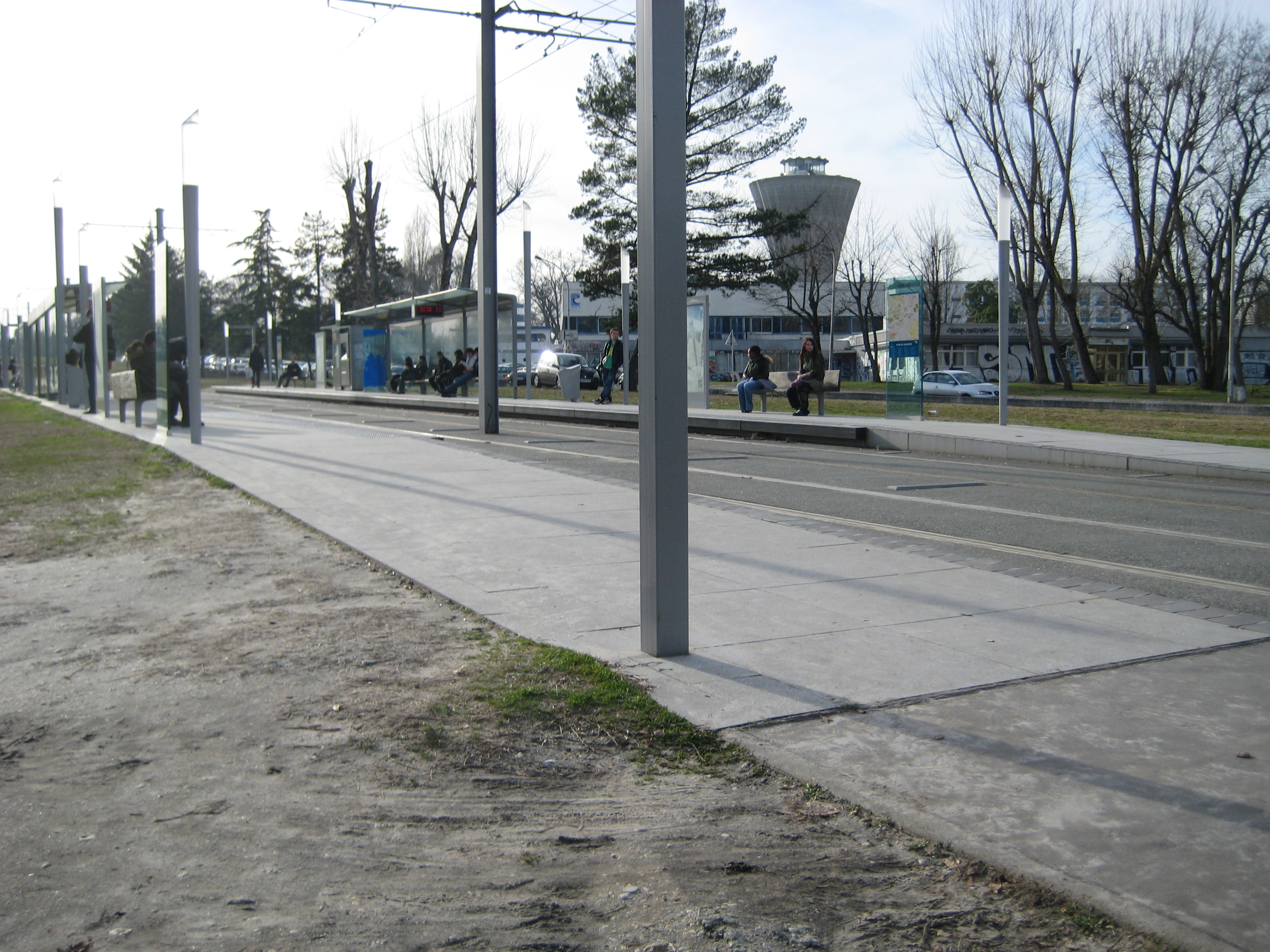 Station Doyen Brus of the Tramway de Bordeaux